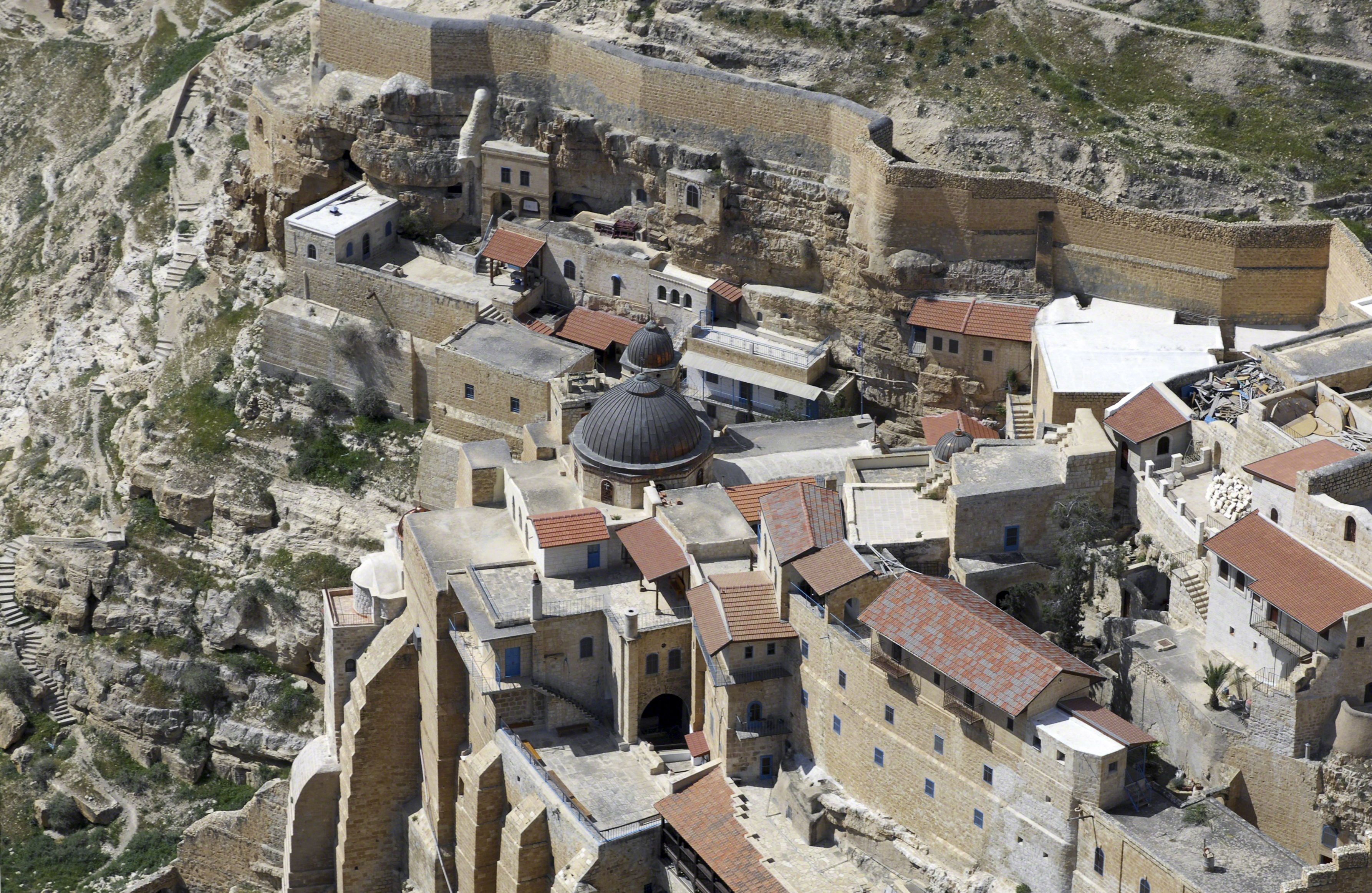 Aerial view of Mar Saba Monastery (Arabic: دير مار سابا; Hebrew: מנזר מר סבא; Greek: Λαύρα Σάββα τοῦ Ἡγιασμένου). A Greek Orthodox monastery located east of Bethlehem in the West Bank.